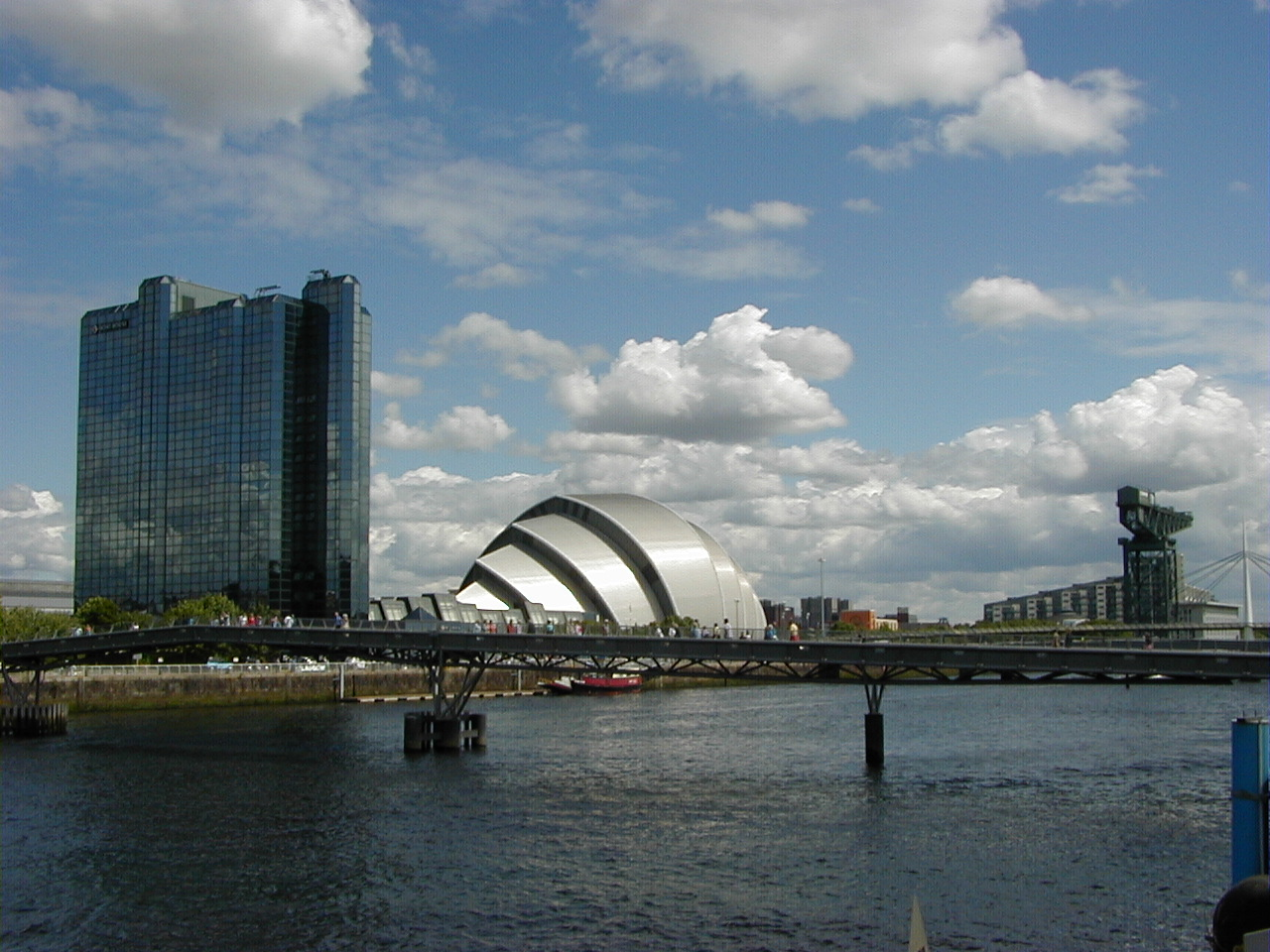 Glasgow looking at the Armadillo from across the Clyde